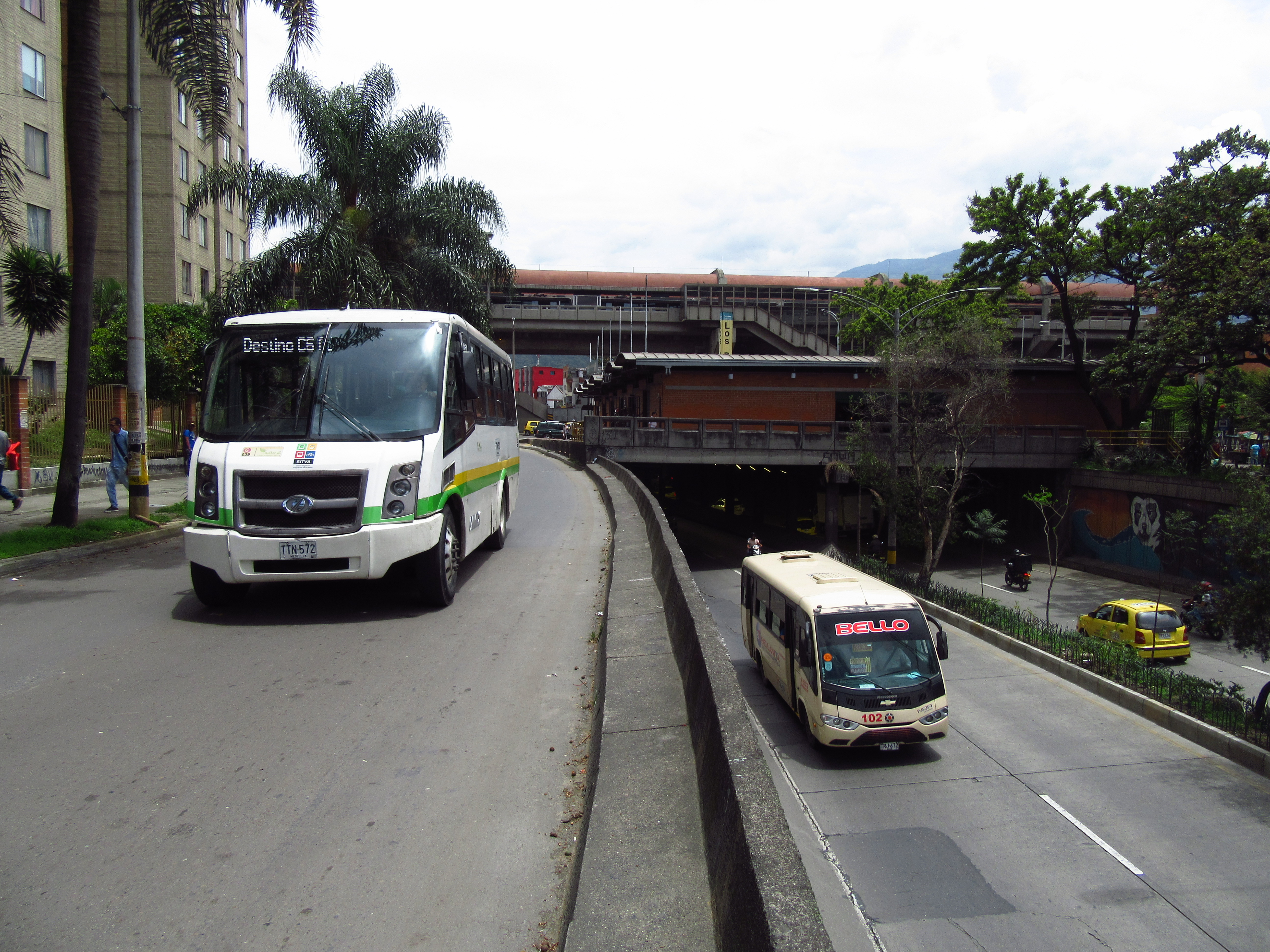 Medellín